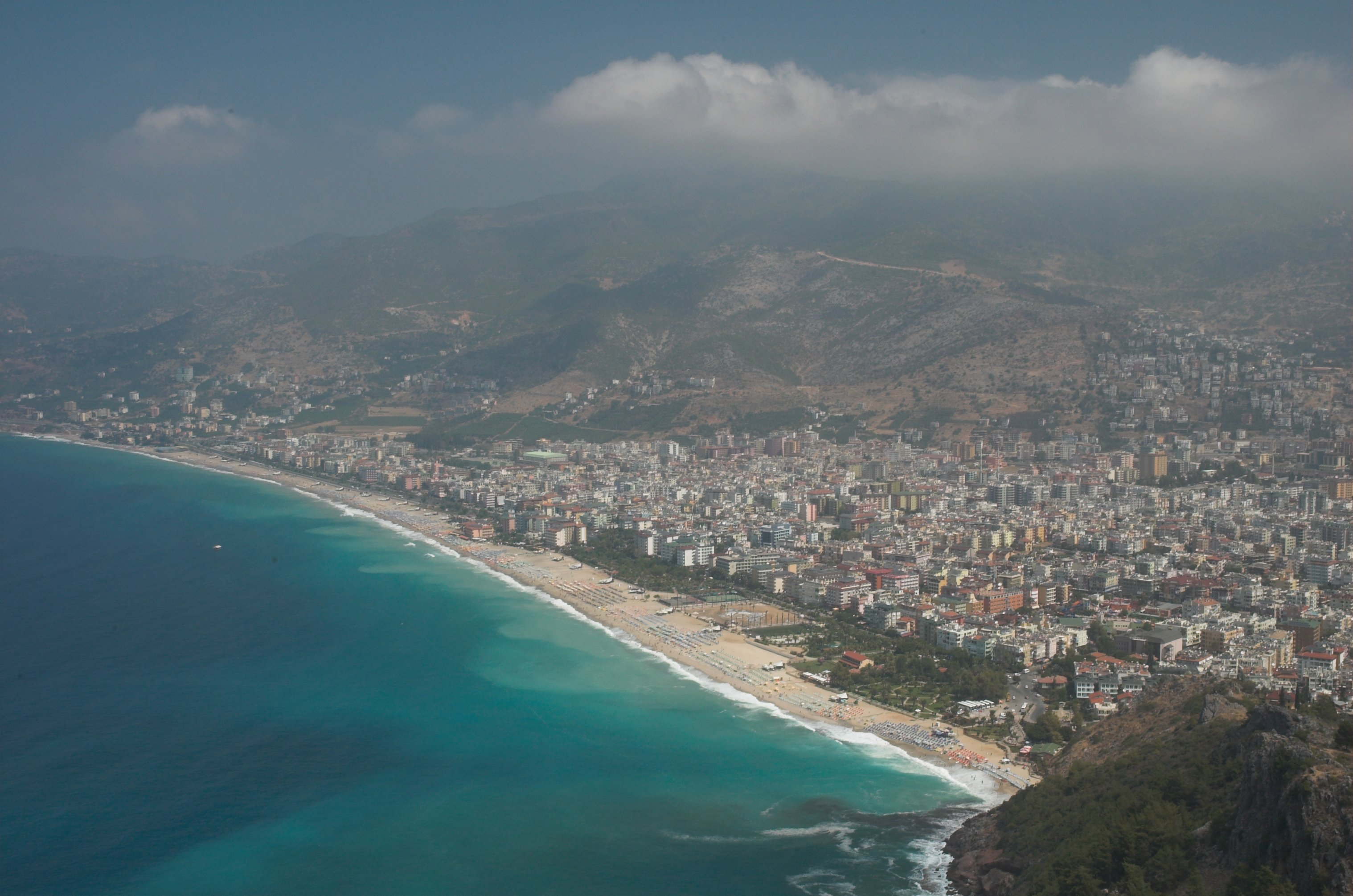 The Cleopatra beach as seen from the Alanya Castle